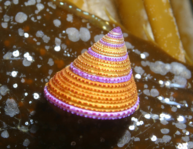 The jeweled top snail Calliostoma annulatum crawling on a blade of the giant kelp Macrocystis pyrifera.